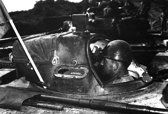 M1 Machine Gun Cupola on a M48A2 tank